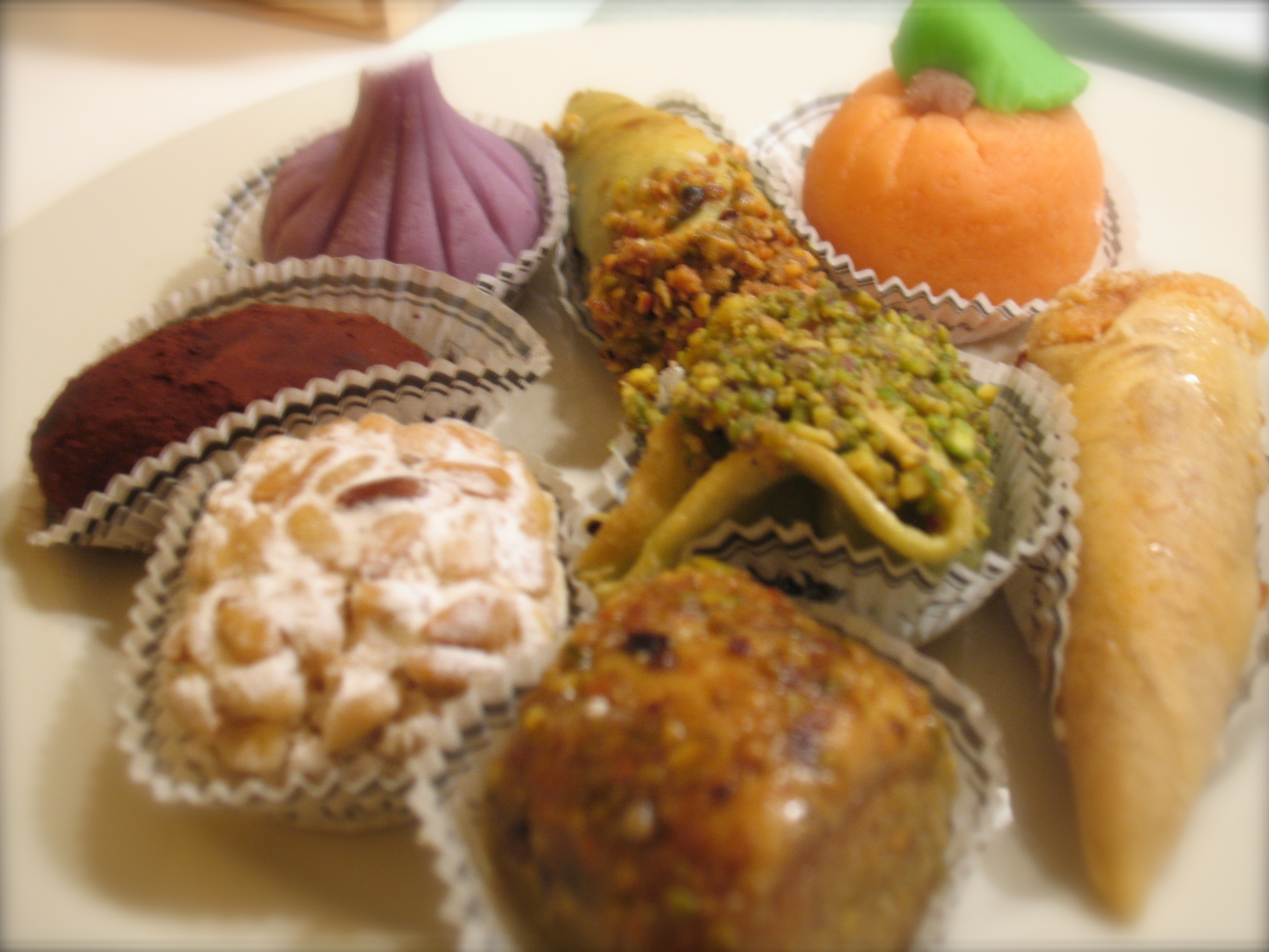 mine